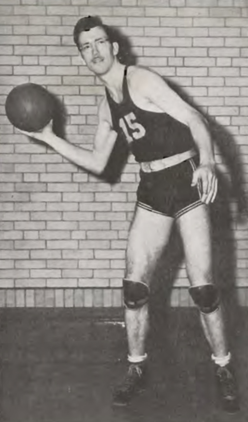 University of Toledo basketball player Bob Gerber from the 1942 “Blockhouse” yearbook.